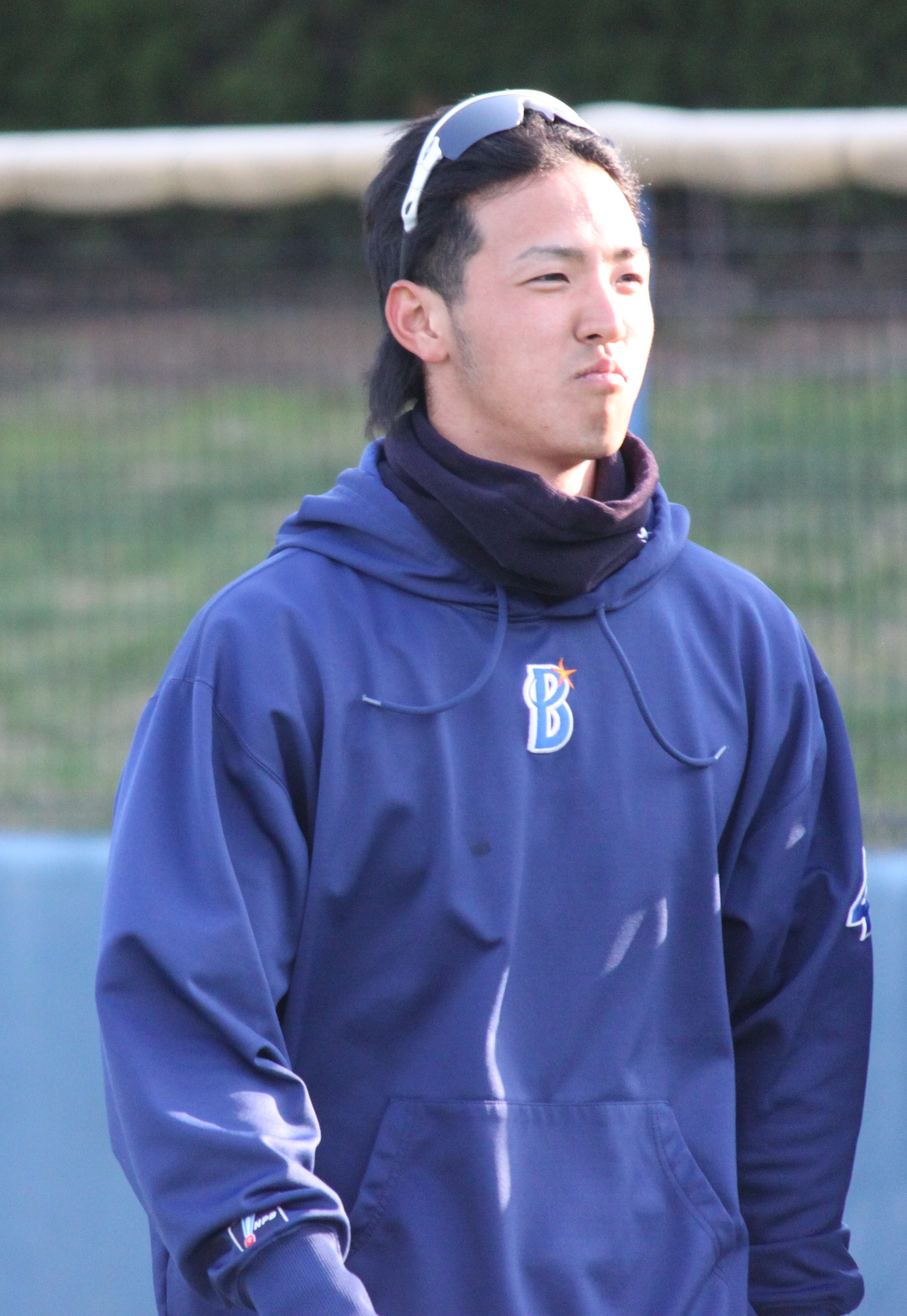 Yuki Watanabe, infielder of the Yokohama DeNA BayStars, at Yokosuka Stadium.